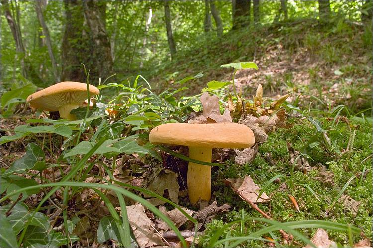 Fruit bodies of the fungus Lactarius volemus (Fr.) Fr. Specimens photographed in Bovec basin, East Julian Alps, Posočje, Slovenia. Notes: "Habitat: Mixed forest, predominantly hardwood,some Picea abies, moderately inclined toward southeast, cretaceous clastic rock (flysh) bedrock, relatively humid place, partly protected from direct rain by tree canopies, average precipitations ~ 3.000 mm/year, average temperature 8-10 deg C, elevations 460 m (1.500 feet), alpine phytogeographical region."